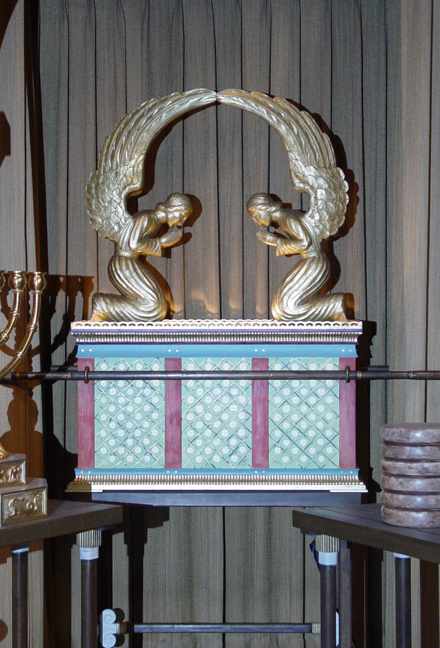 Replica of the Ark of the Covenant in the Royal Arch Room of the George Washington Masonic National Memorial. Photo by Ben Schumin on December 27, 2006.